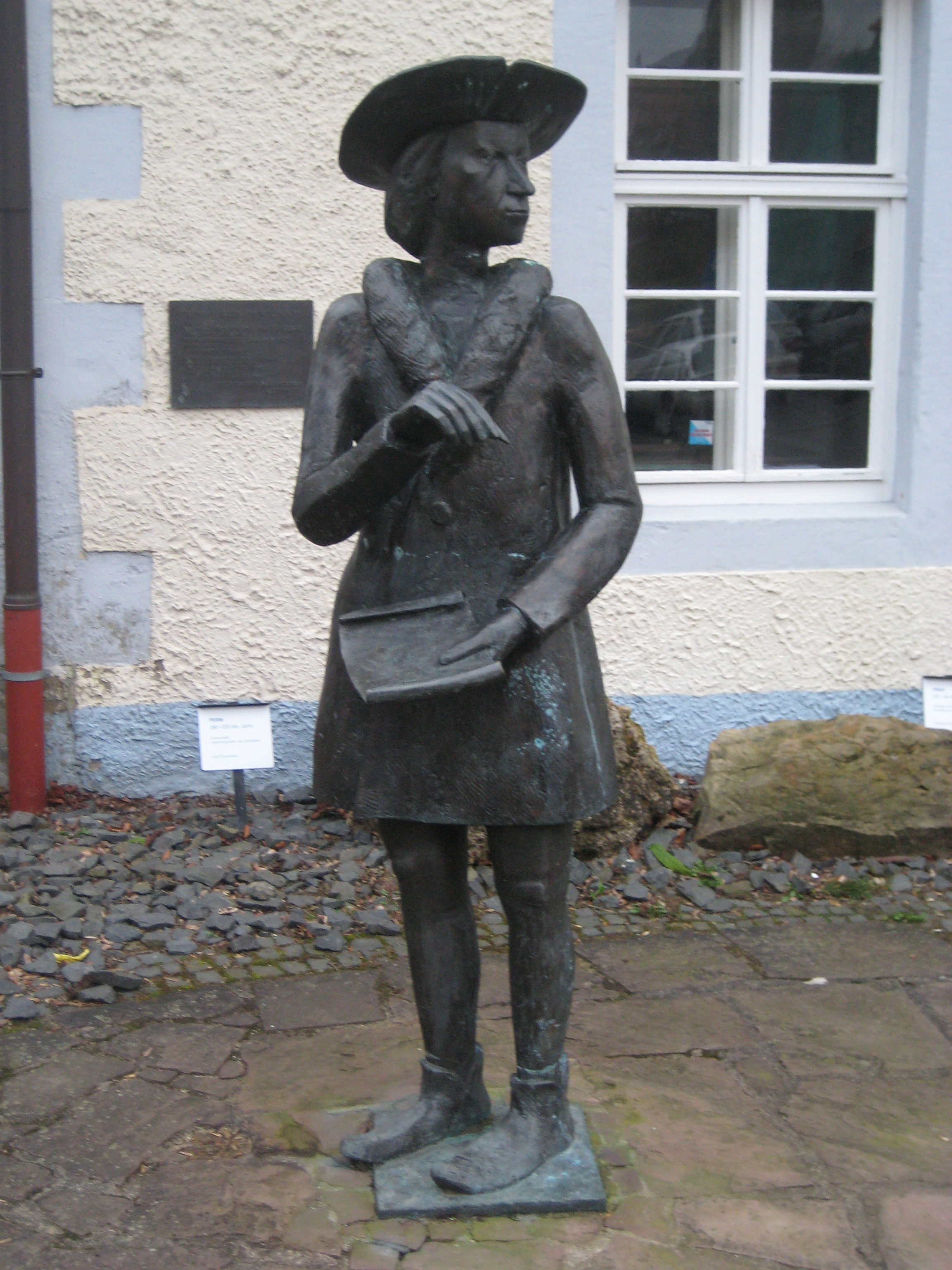 Monument to Tilemann Elhen von Wolfhagen at the Wolfhagen Regional Museum in Wolfhagen, Hesse, Germany.